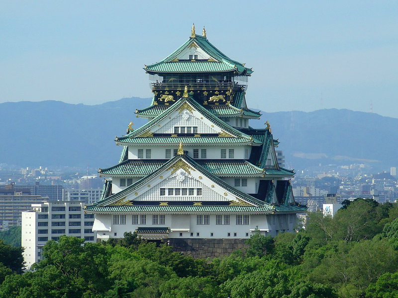 Osaka Castle.(Chuo Ward, Osaka City, Osaka Prefecture, Japan)